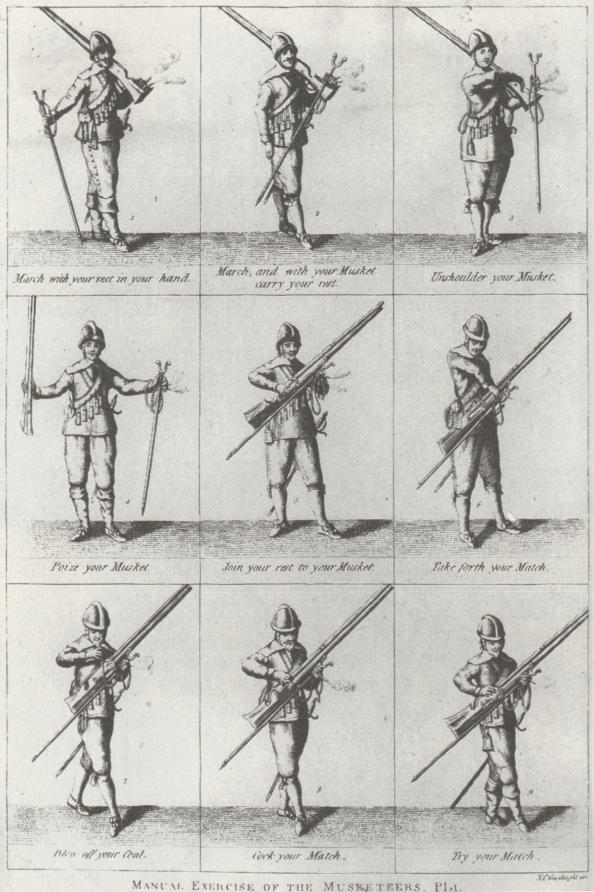 'Manual Exercise of the Musketeers, Pl. 1' - extended information on the scan's origin book page reads: "A Seventeenth-Century manual of arms; step-by-step procedure in the handling of the musket by ranked [arranged in ranks] men was essential to avoid fatal accidents." (square bracket explanation by uploader).